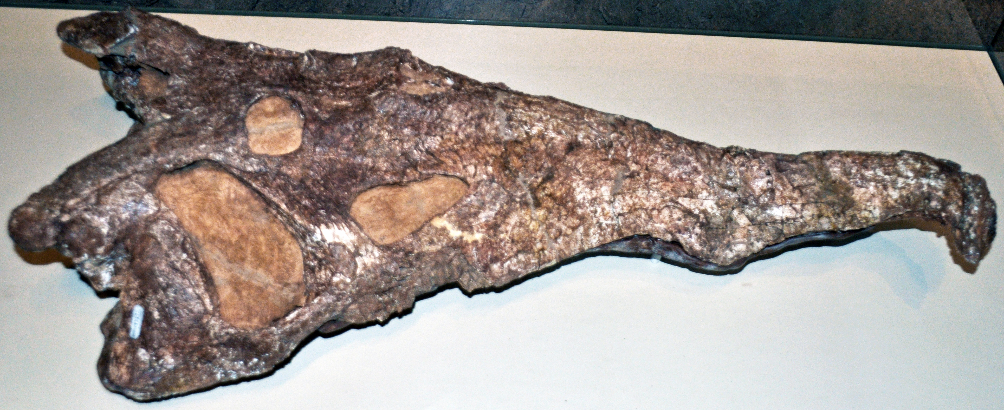 Redondasaurus bermani Hunt & Lucas, 1993 - fossil reptile skull from the Triassic of New Mexico, USA. (CM 69727, Carnegie Museum of Natural History, Pittsburgh, Pennsylvania, USA) Prima facie, this fossil skull looks like it is a crocodilian - but it's not! This is a phytosaur. Phytosaurs and crocodilians are unrelated reptiles that have similar body plans - an excellent example of convergent evolution. Phytosaurs are an extinct group of reptiles known only from Upper Triassic rocks, possibly extending into the Lower Jurassic. This is the holotype skull of Redondasaurus bermani, a phytosaur from Triassic nonmarine rocks in New Mexico. Classification: Animalia, Chordata, Vertebrata, Reptilia, Phytosauria, Phytosauridae or Parasuchidae Stratigraphy: upper siltstone member, Rock Point Formation, Chinle Group (a.k.a. Rock Point Member, Chinle Formation), Rhaetian Stage, upper Upper Triassic Locality: Whitaker Quarry (Ghost Ranch Quarry), Ghost Ranch, Rio Arriba County, northern New Mexico, USA See info. at: and